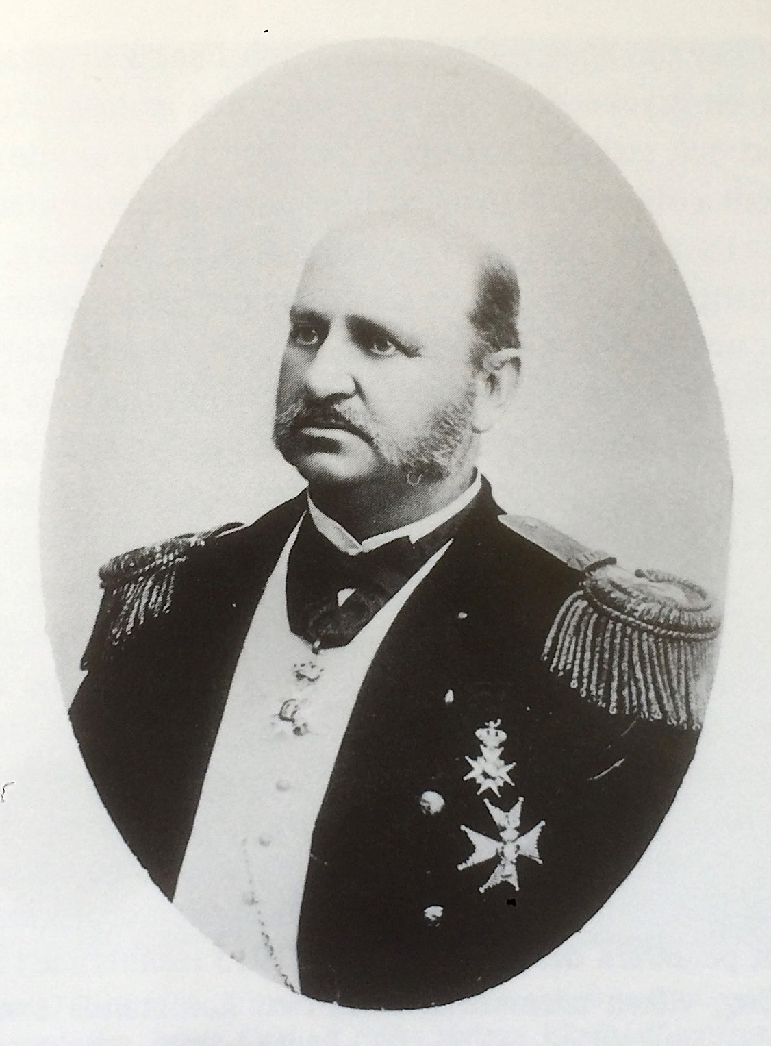 Manfred Fürst, svensk överfältläkare och hedersdoktor vid Lunds universitet